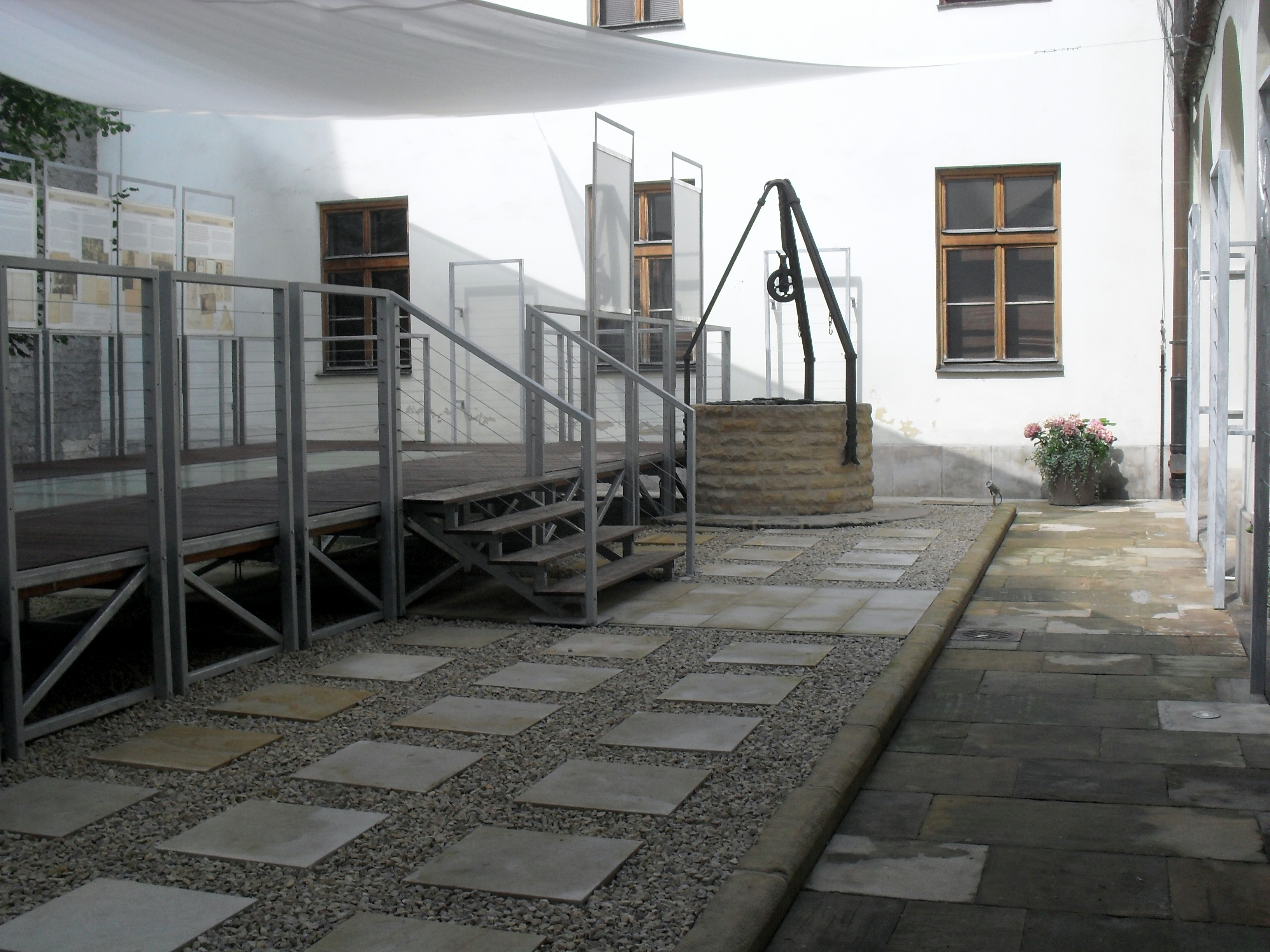 State Archive in Krakow, 16 Sienna street